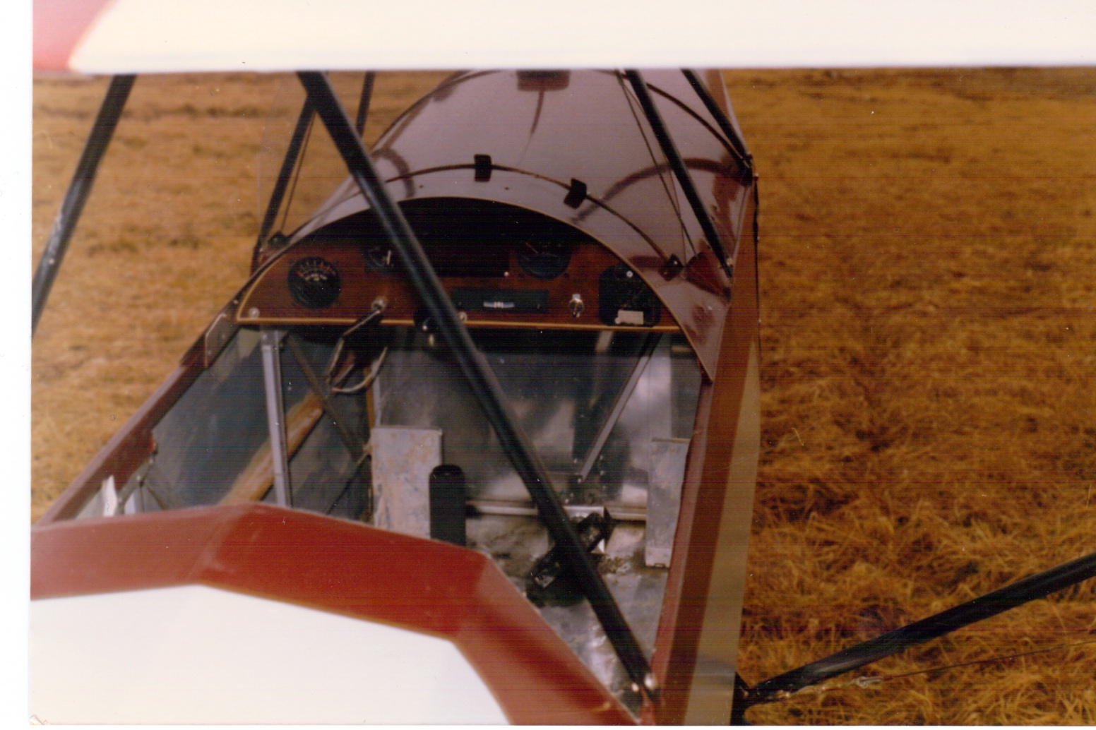 view into cockpit of Aerotique Parasol